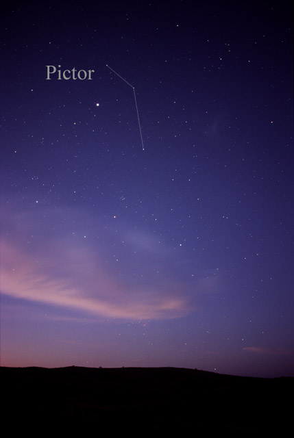 Photography of the constellation Pictor, the painter